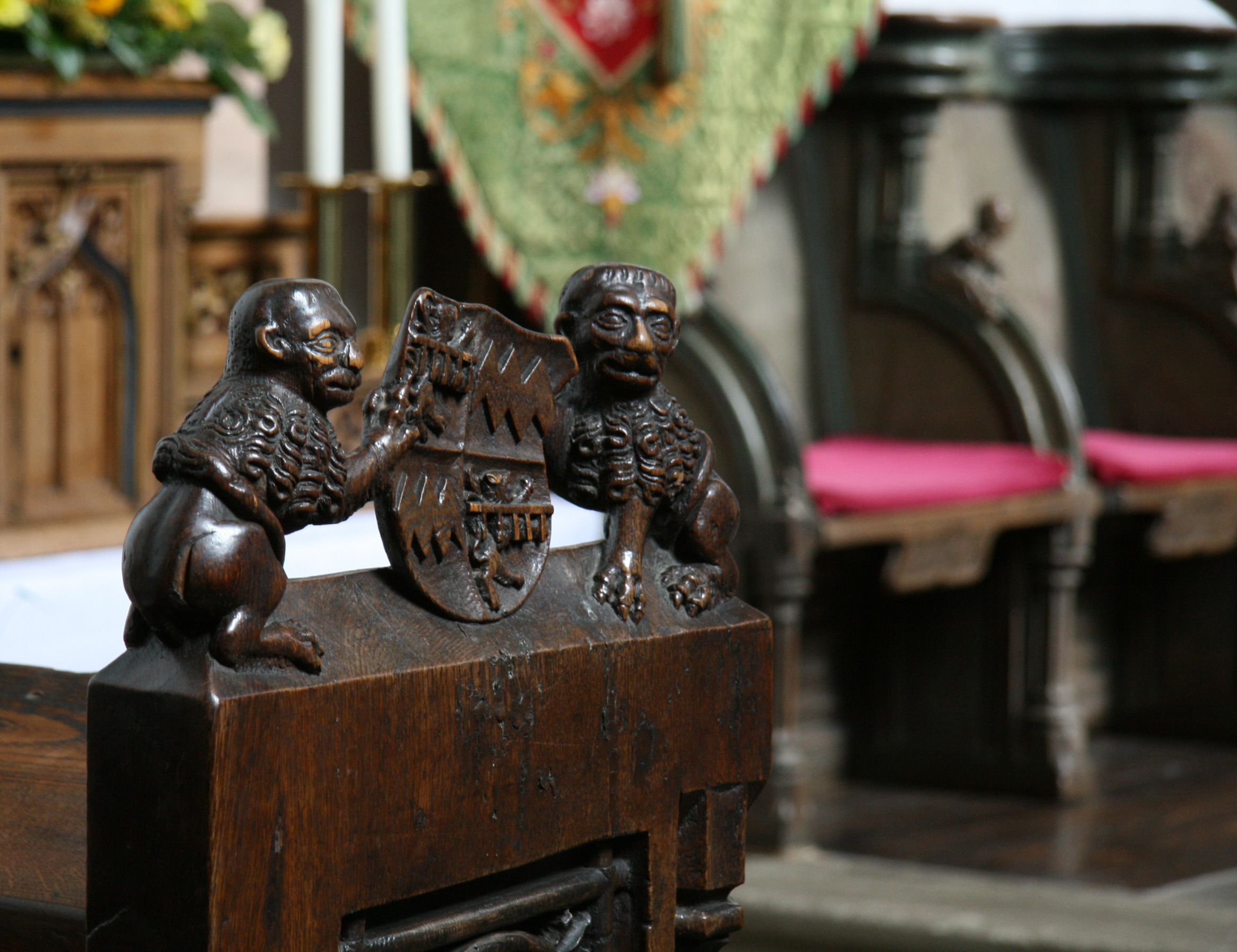 Carved lions on a church bench in Blankenheim, North Rhine-Westphalia, Germany